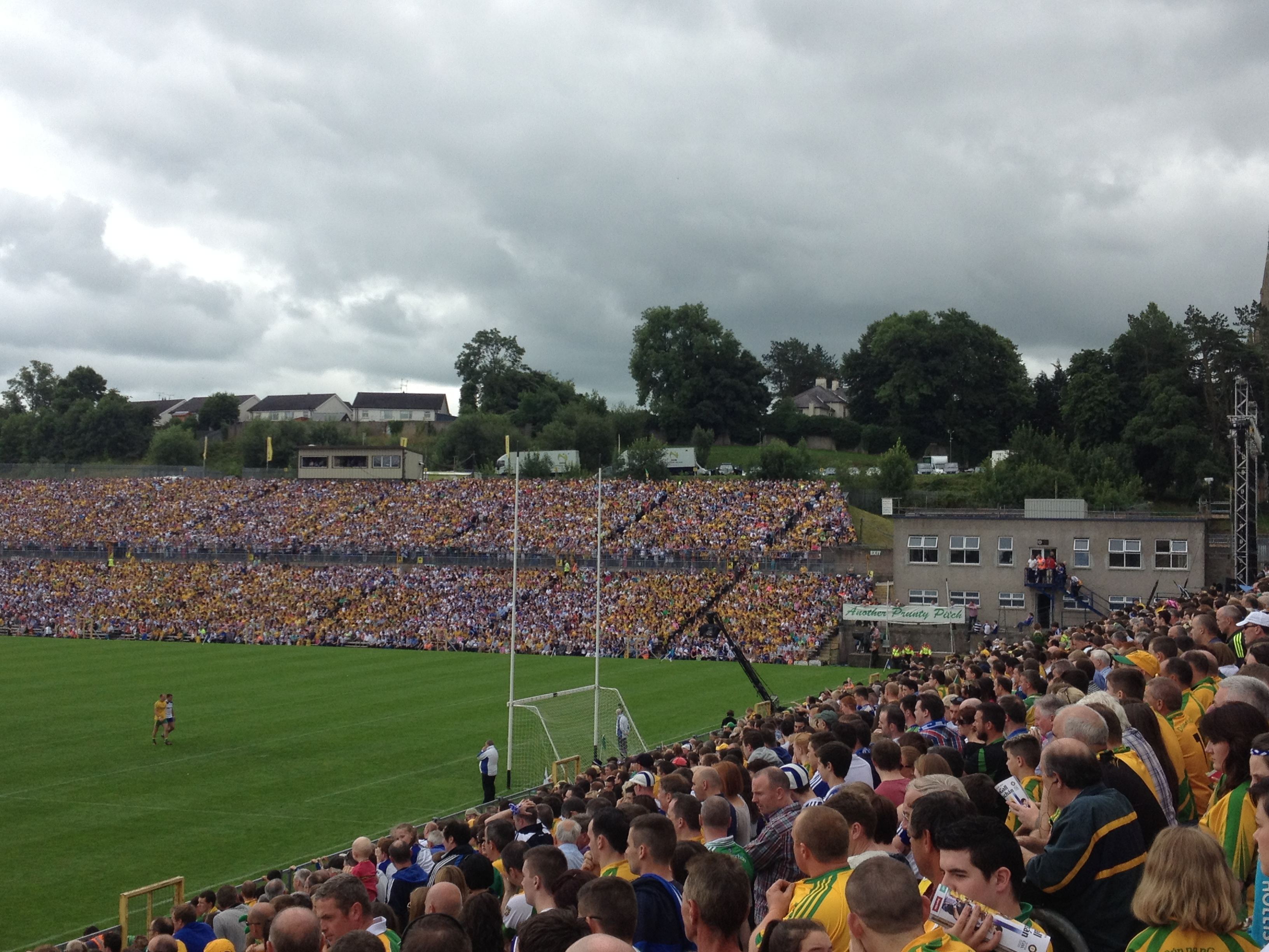 UIster Final 2014